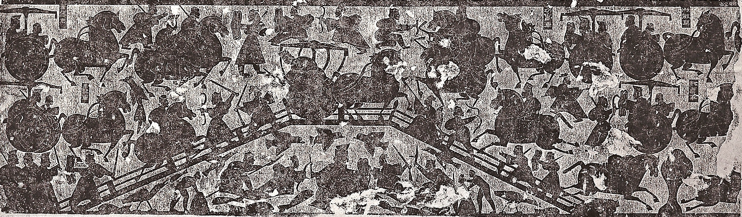 Rubbing detail from Stone Chamber 1 on the West Wall of the Wu Family Shrine in Shandong Province, China, dated 2nd century AD during the Eastern Han Dynasty. This scene is described as thus by Cary Y Liu and Eileen Hsiang-Ling Hsu: This "battle at the bridge" scene can be divided into three zones: above, on, and below the bridge. Above the bridge chariots with officials' titles inscribed in cartouches, cavalry, and infantry come form both sides for battle. At the center of the bridge a prominent male figure in a canopied chariot engages with an armed female before and behind him. The left female wields a long sword in one hand and in the other she carries a double-sickle sword (gouxiang) that has become interlocked with the sword of the man in the chariot. All along the bridge are other combatants. At the foot fo the bridge on the right side two horsemen gallop away from the bridge. Under the left horse lies a decapitated body whose head hangs in the stylized tree between the two horsemen. Under the bridge is a large figure who may be the same man seen in the chariot of the bridge. Again, he is beset by two female warriors, one on each side, but here they stand in boats. Fishermen, fish, and cranes and other birds fill the space around the action under the bridge.